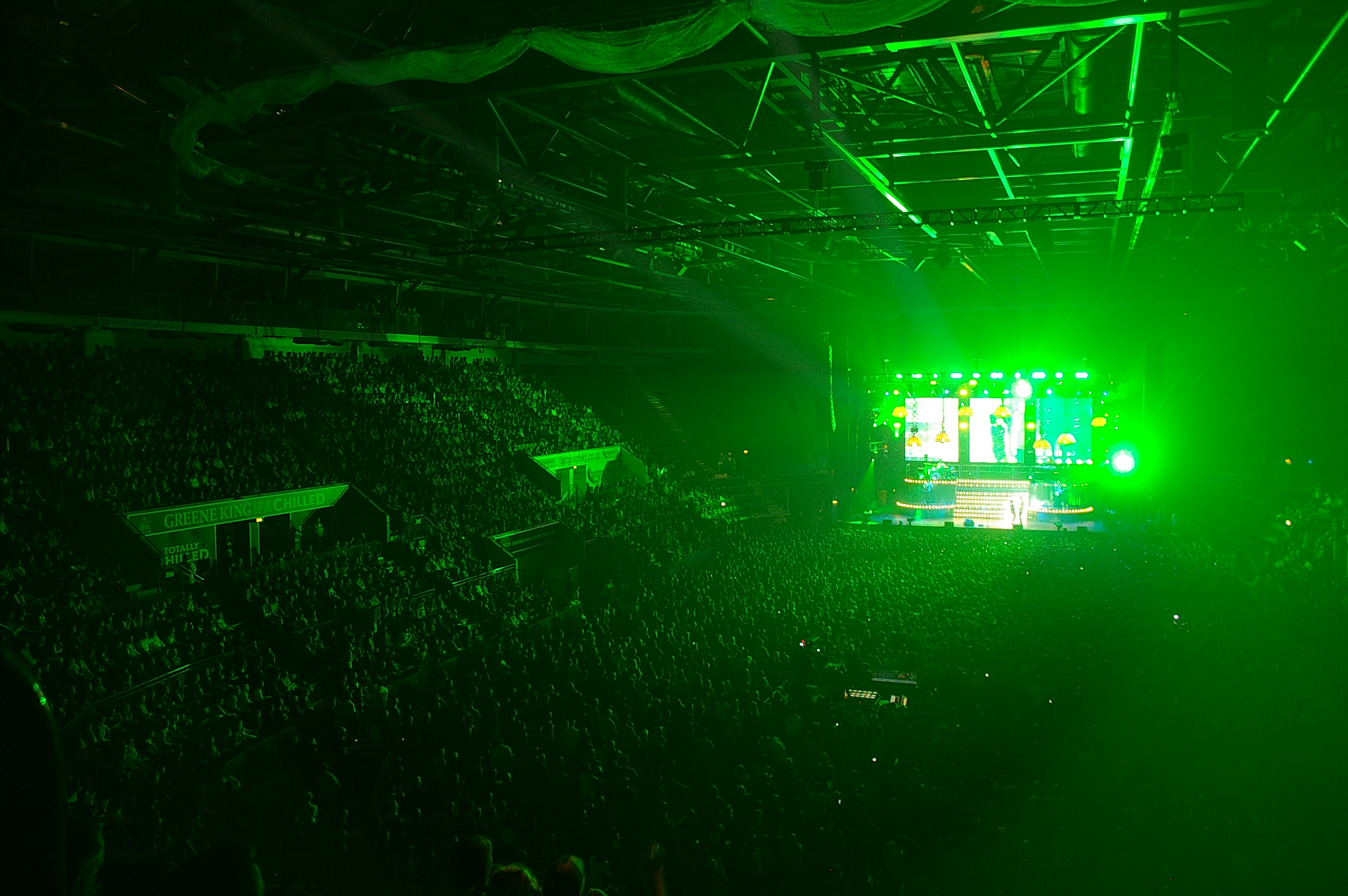 Professor Green performing live at the Trent FM Arena in Nottingham.